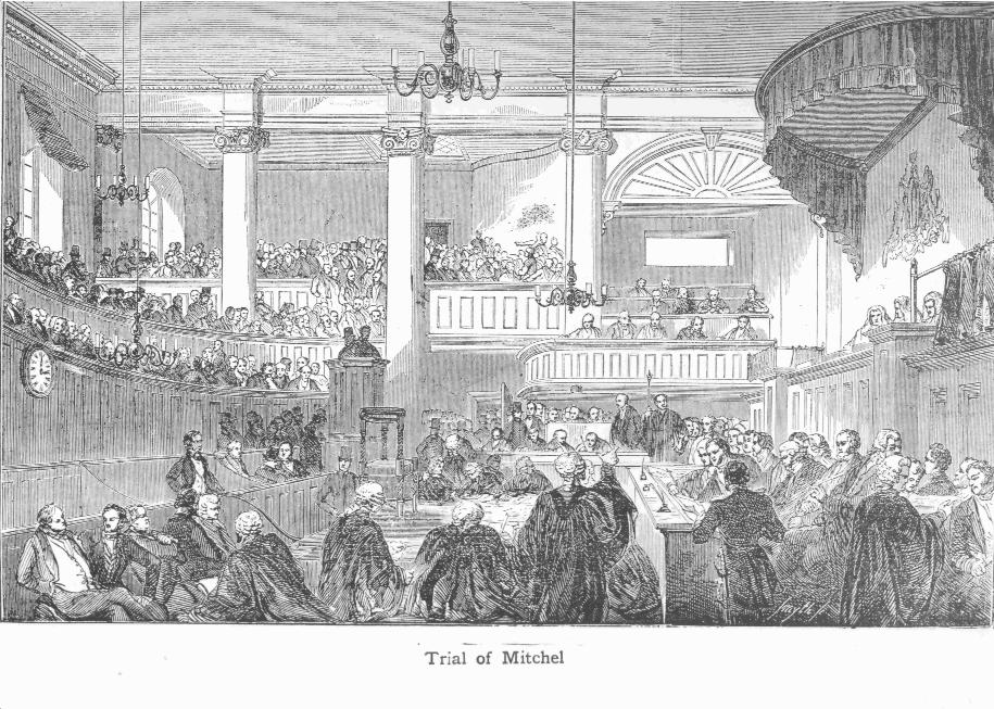 Trial of John Mitchel in Green Street Courthouse. Jail Journal was first serialised in his first New York City newspaper, The Citizen, from 14 January 1854 to 19 August 1854